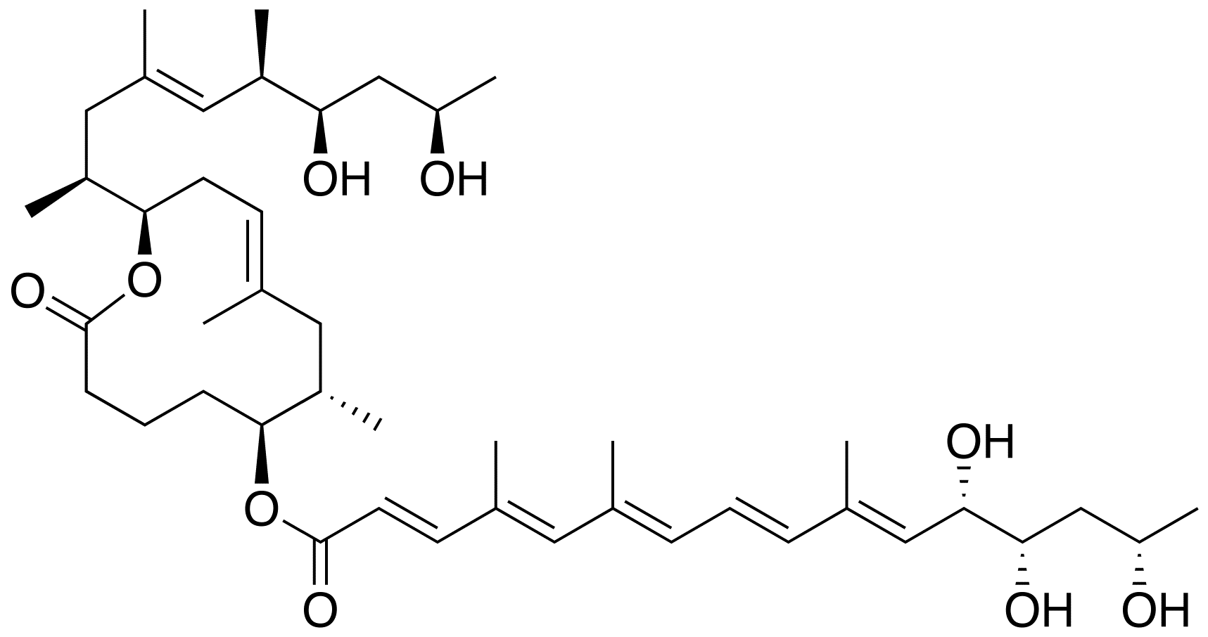 Structure of Mycolactone